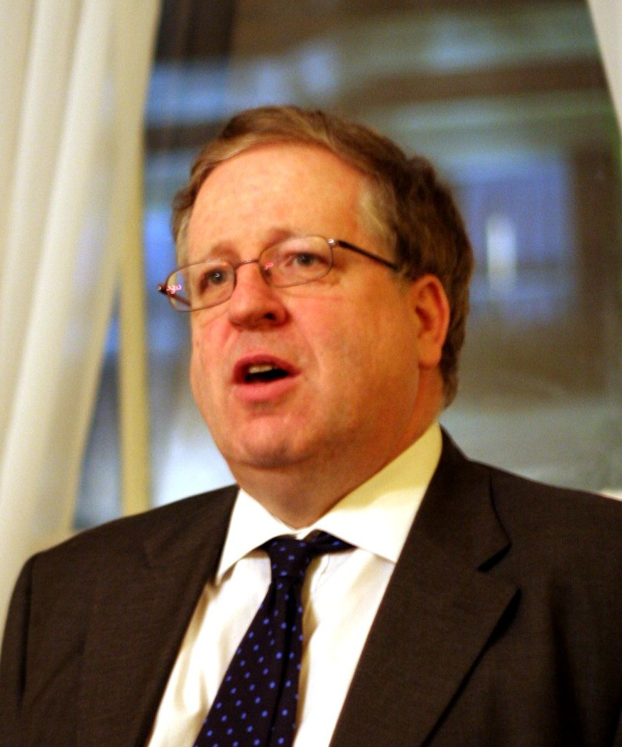 Patrick_McLoughlin